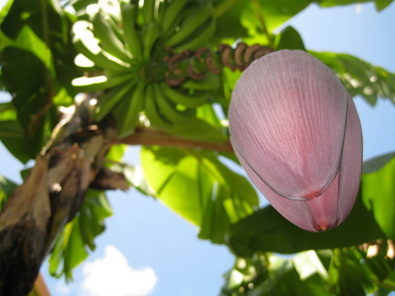 Banana flower, Vieques, Puerto Rico